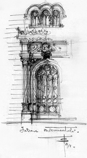 Sketch of monumental entry. Extract from sketches (croquis) notebook of Toma T. Socolescu. We are the only heirs and descendants of Toma T. Socolescu (died in 1960 in Bucharest) and therefore owner of all his intellectual rights.